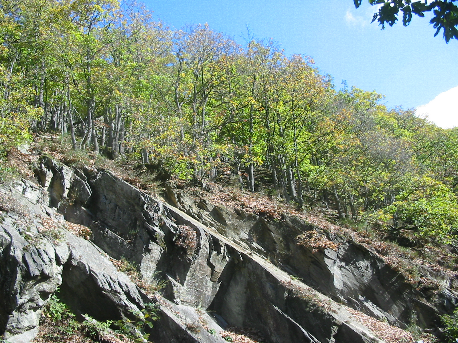 South of Kermeter, oak trees and rocks, Eifel/Germany